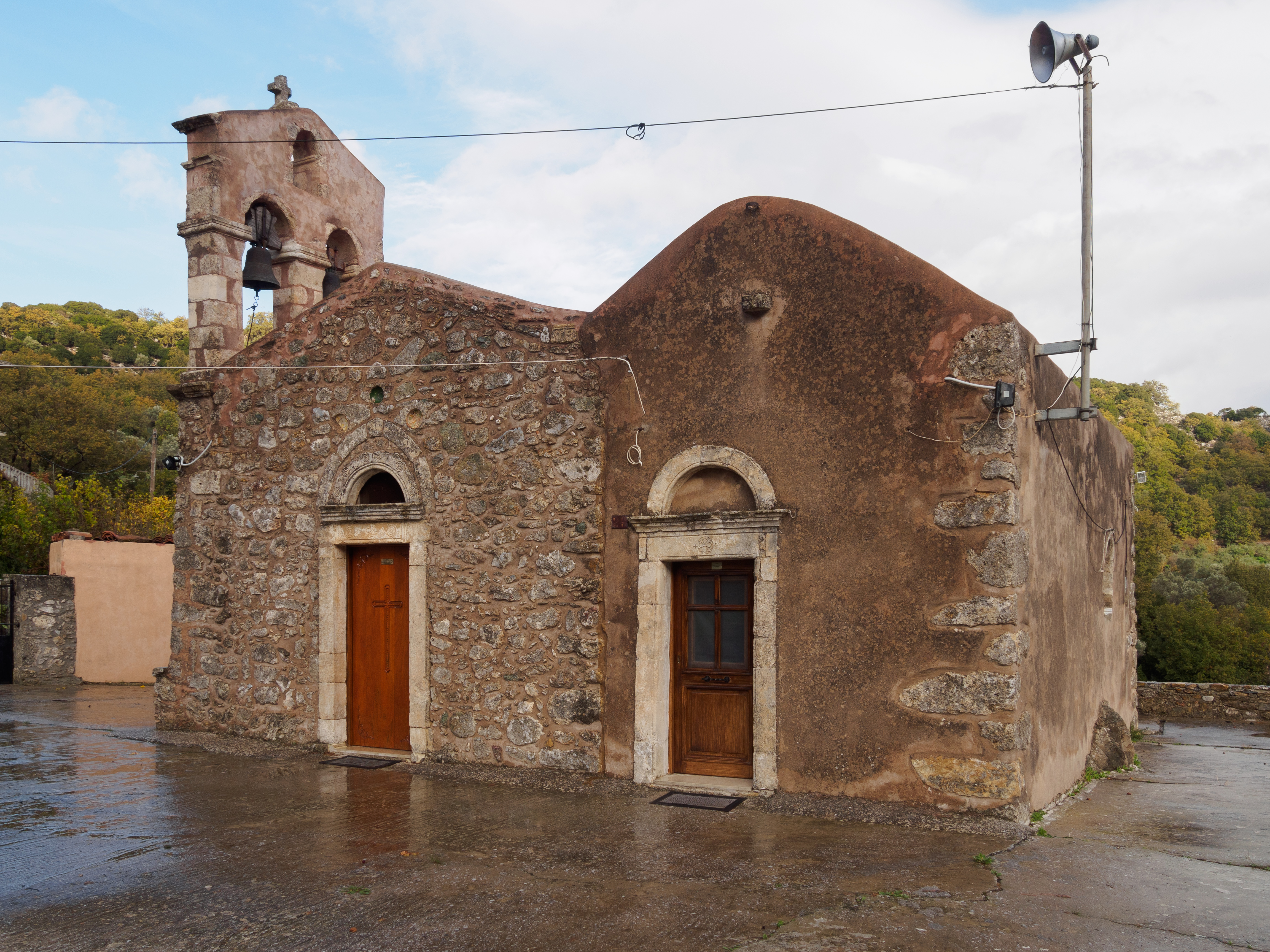 View of the 14th century church of Saint Nicholaus in Elenes, Amari, Crete.